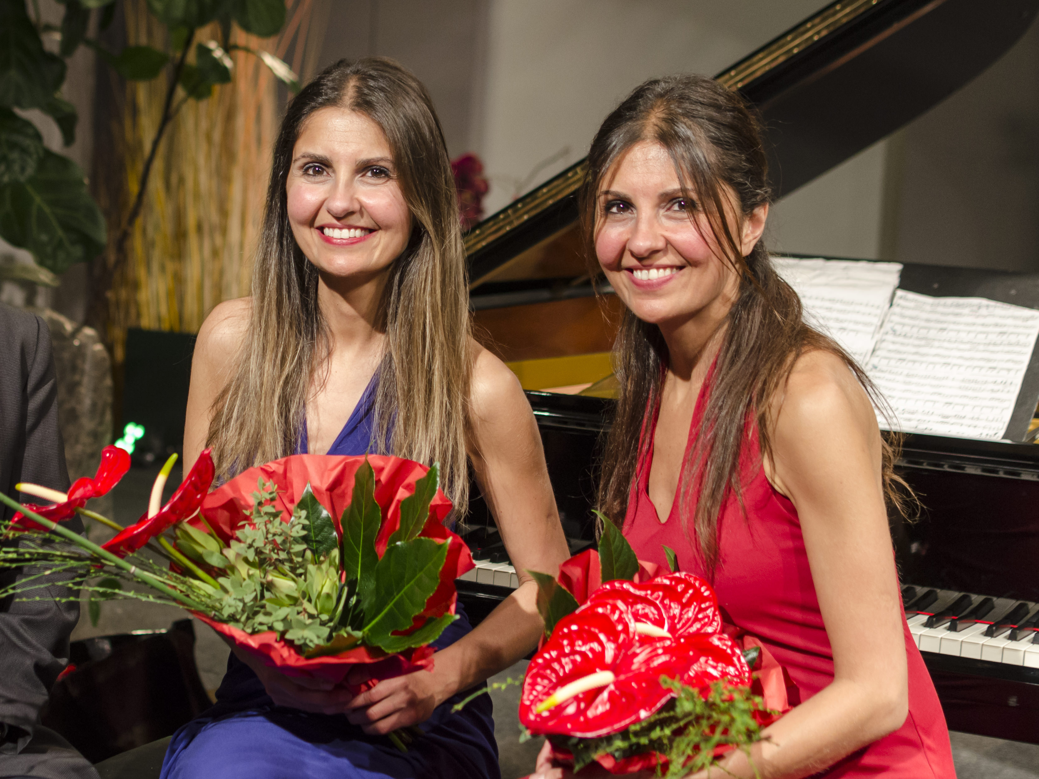 Ferzan and Ferhan Önder after a performance at Kulturfabrik Hainburg, Austria, 2017